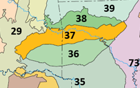 Map showing the Arkansas Valley (37) ecoregion as defined by USEPA, with adjacent Level III ecoregions